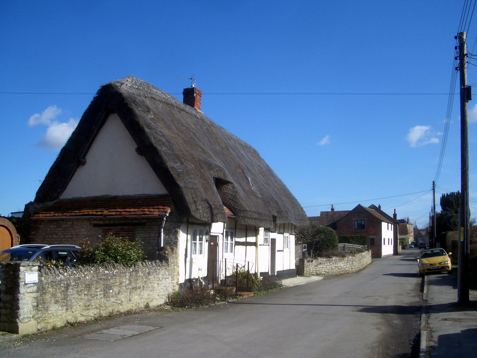 1–3 School Lane, Stadhampton, Oxfordshire, seen from the west